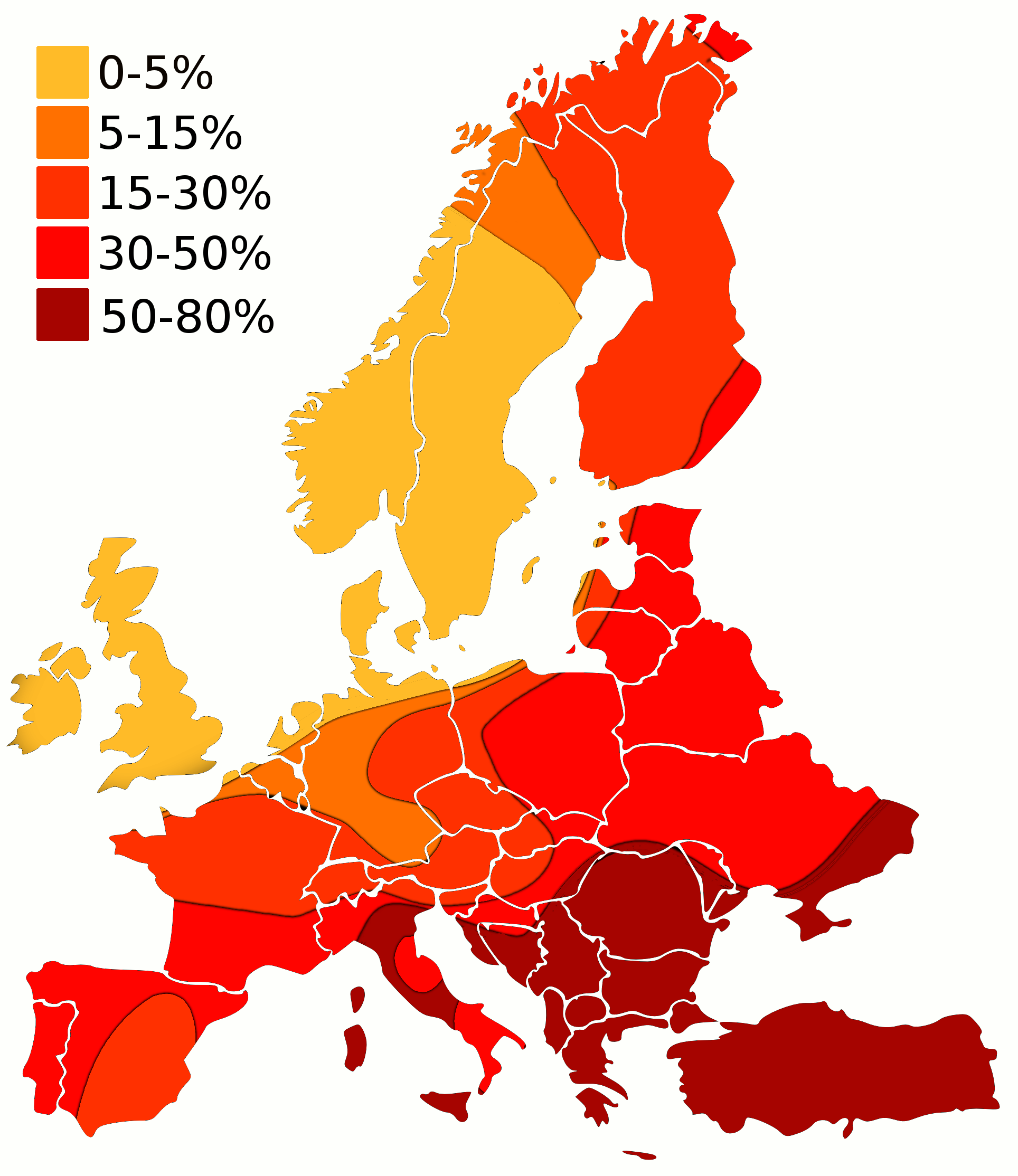 Lactoseintolerance in europe